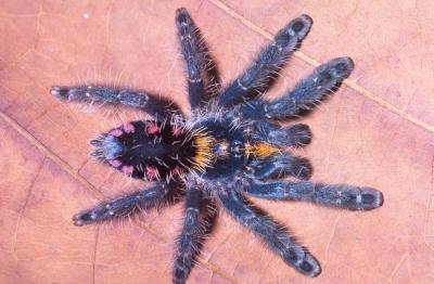 One of the newly discovered tarantulas: Typhochlaena costae